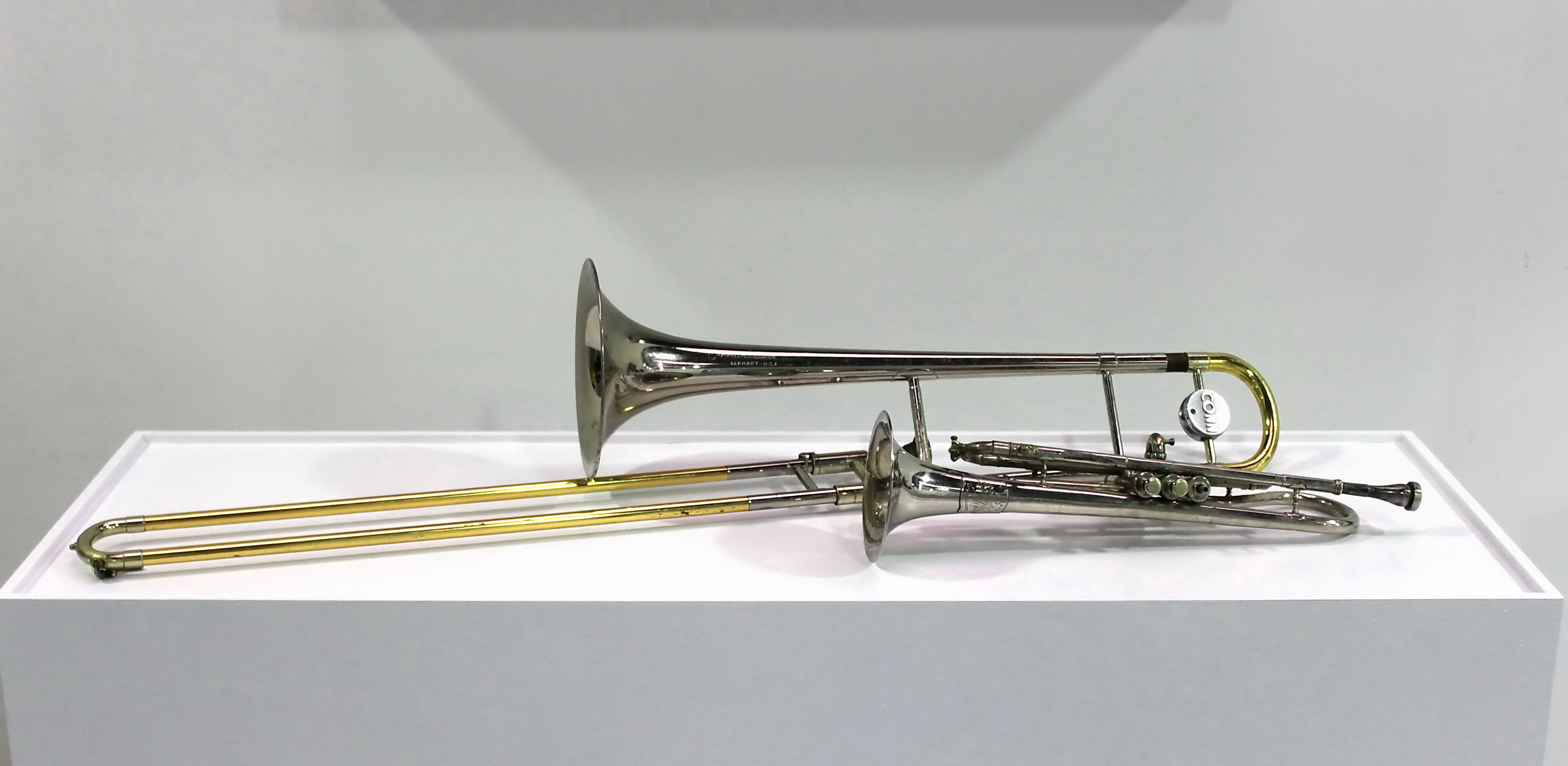 Trombone G.G.Conn from USA. From around 1950. year.